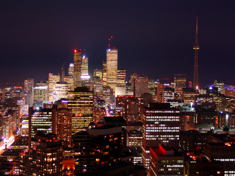 Toronto Summer Night